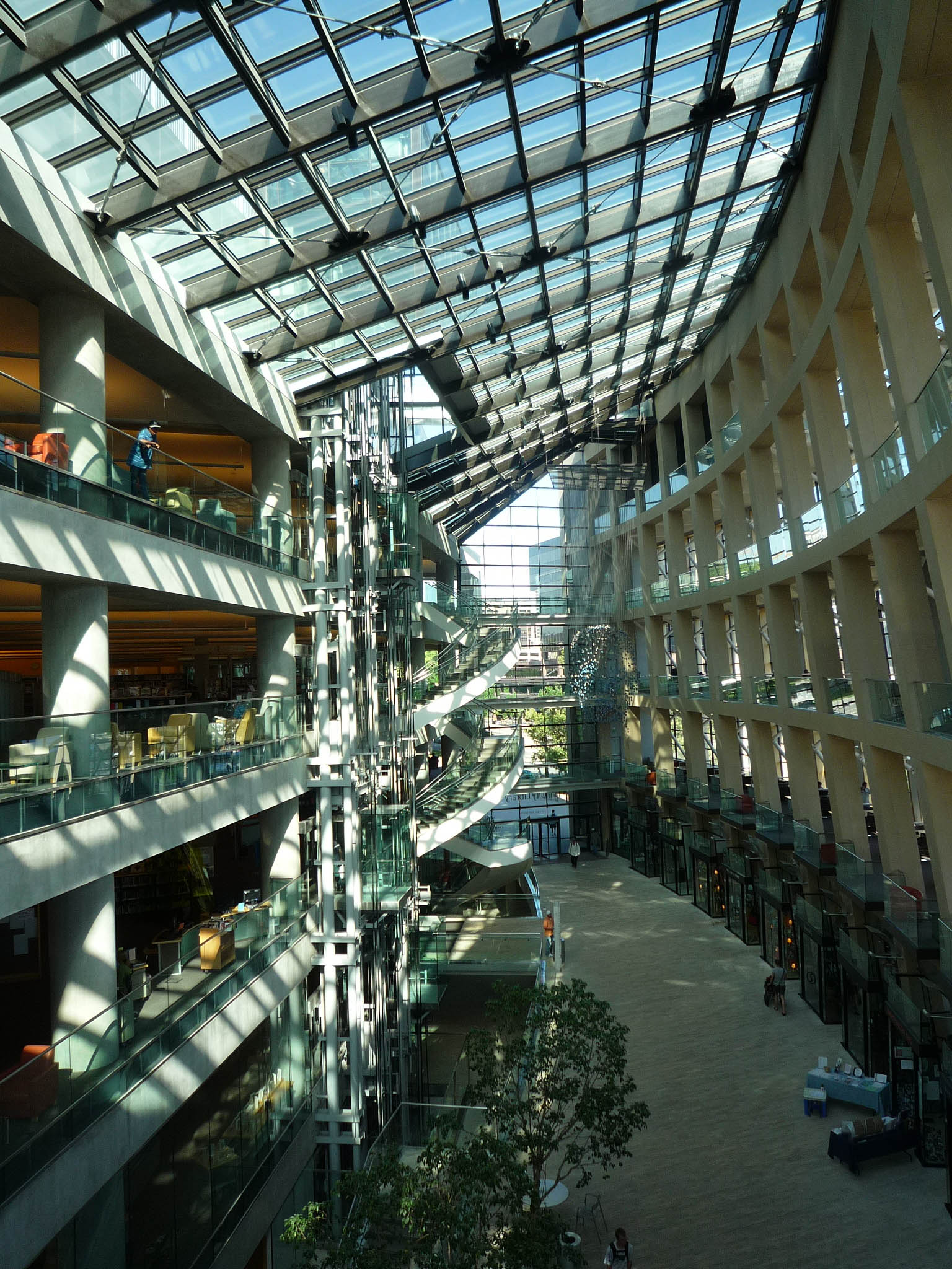 Interior of the Salt Lake City Public Library, as seen on August 9, 2011.